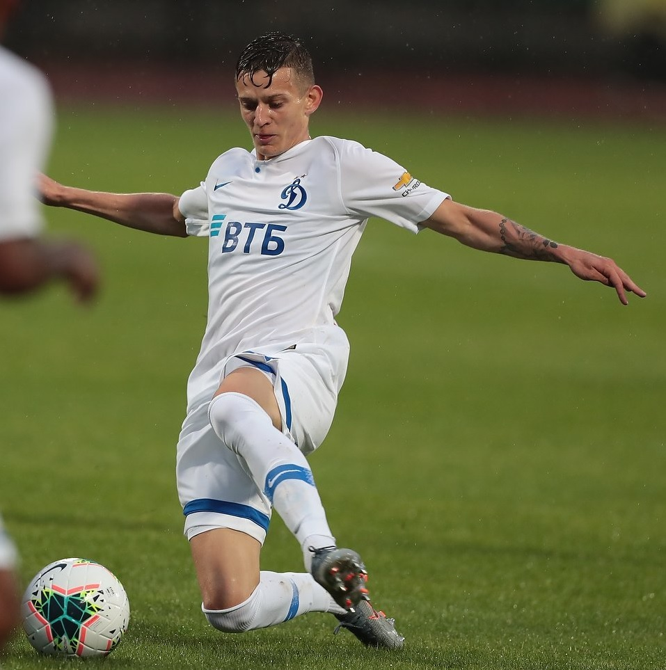 Sebastian Szymański with FC Dynamo Moscow in a game against FC Arsenal Tula.